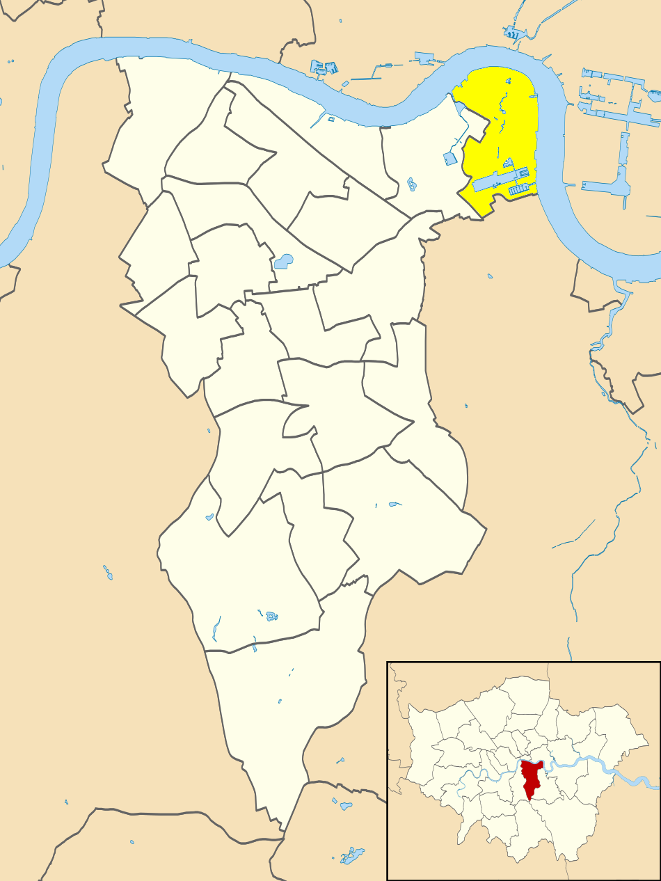 Ward map of the London Borough of Southwark. Highlighted in yellow is the ward Surrey Quays in the Rotherhithe Peninsula.